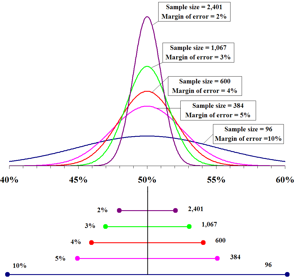 This is a visualization of the margin of error. I made this image myself.